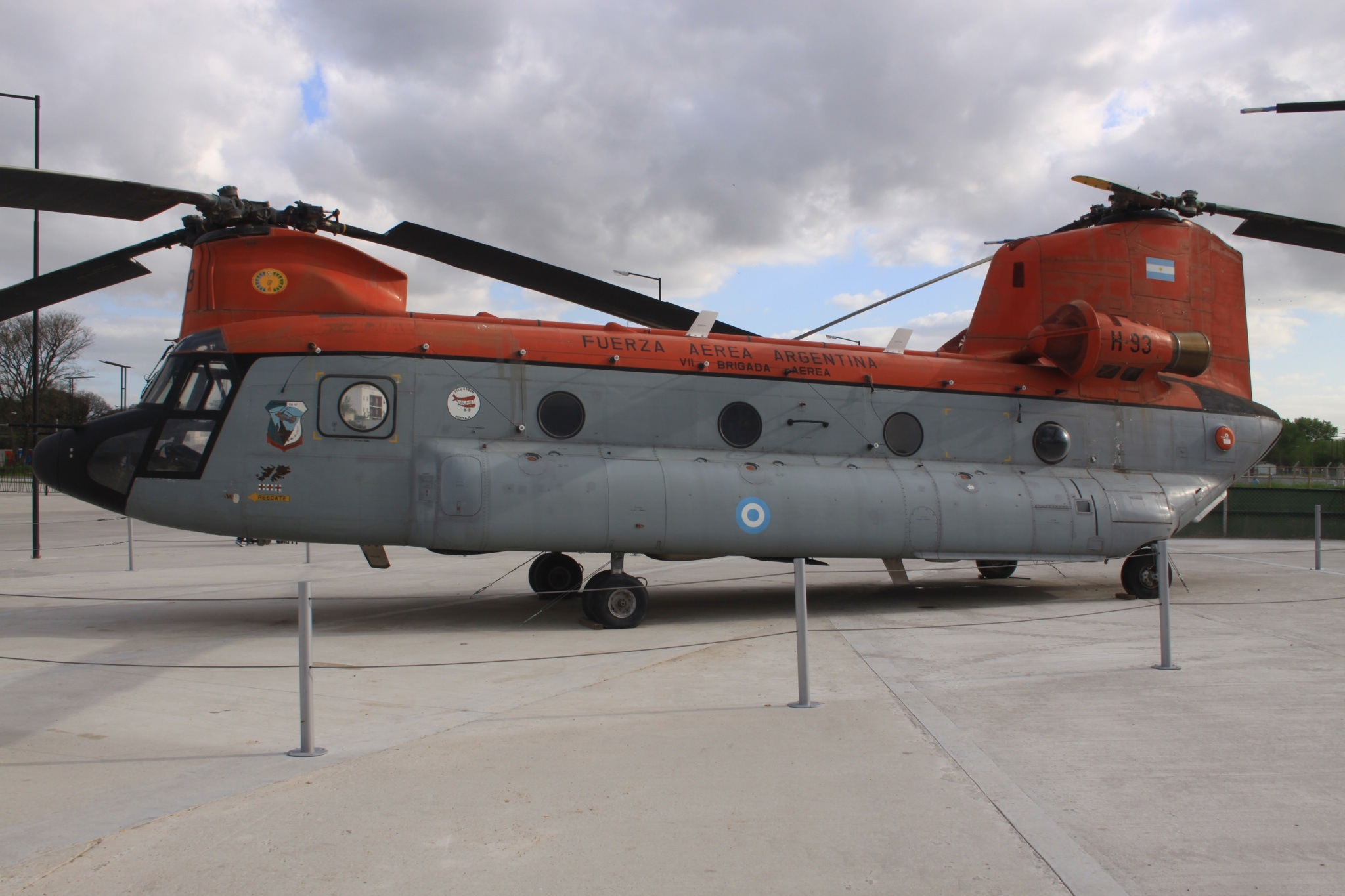 At Tecnopolis, Buenos Aires